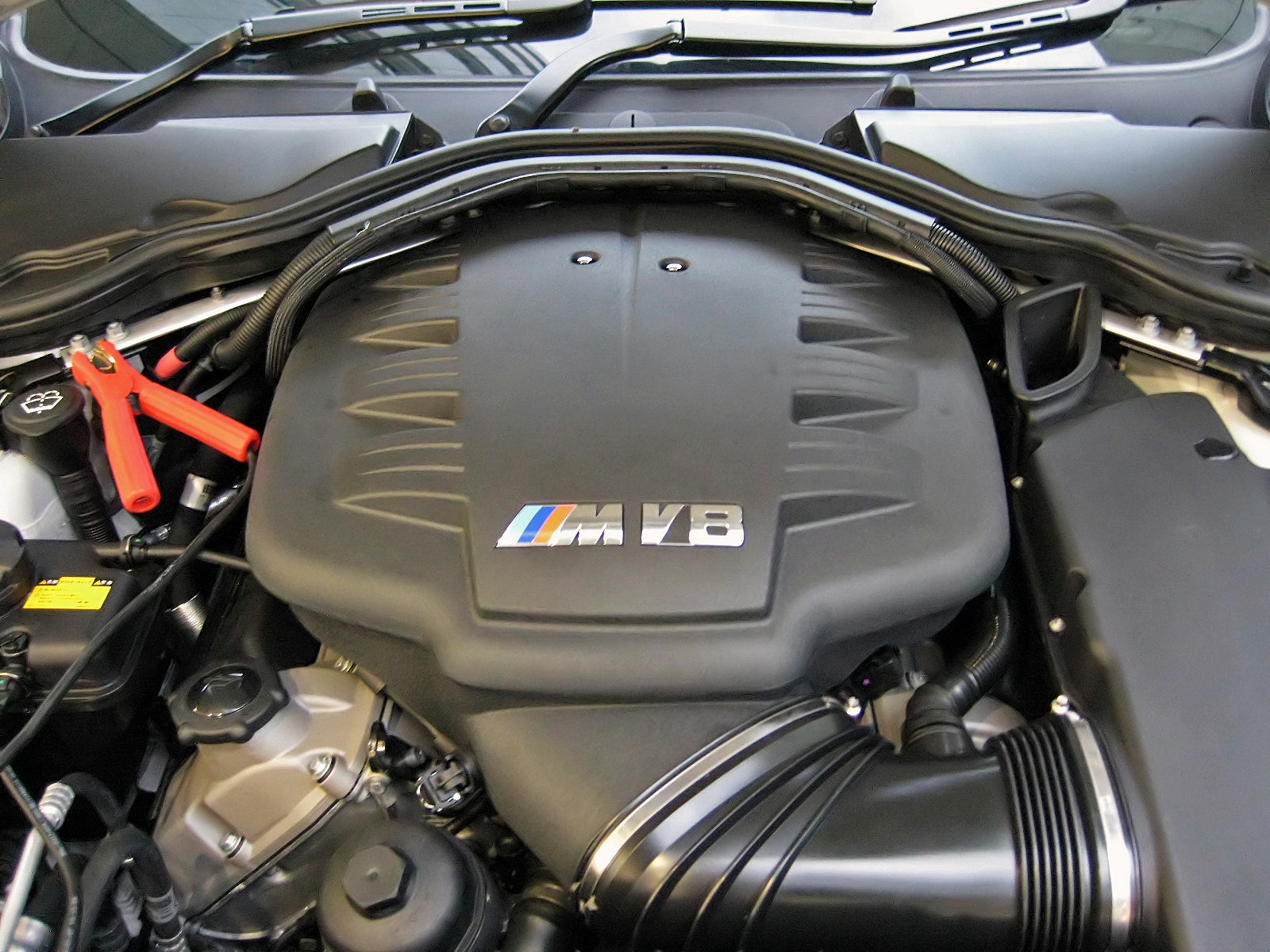 BMW S65B40A 4.0L V8 DOHC Engine on 2008 BMW M3 Coupé